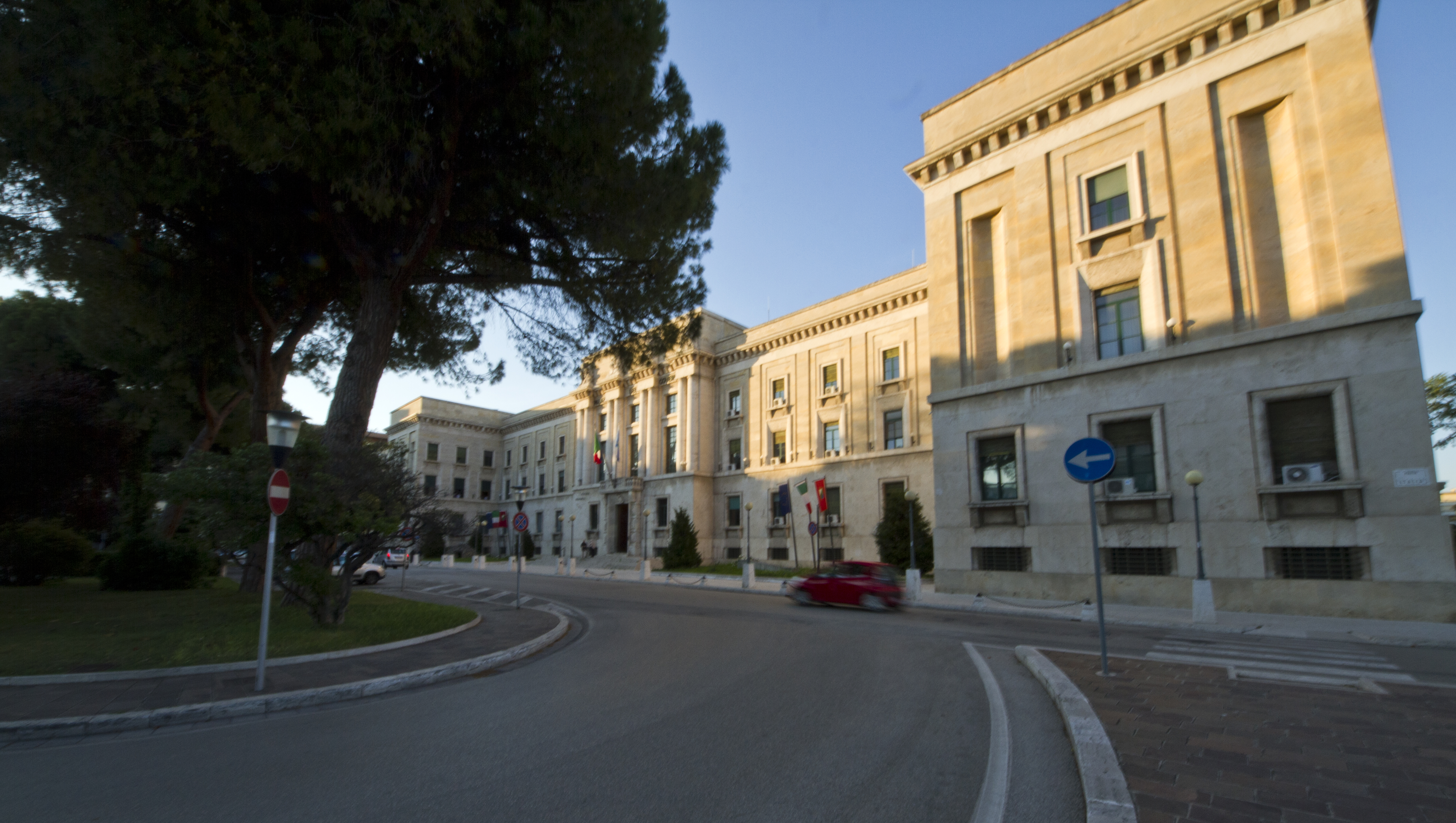 Pescara, Province of Pescara, Italy